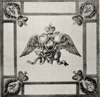 Standard of the Astrakhan Cossack Regiment